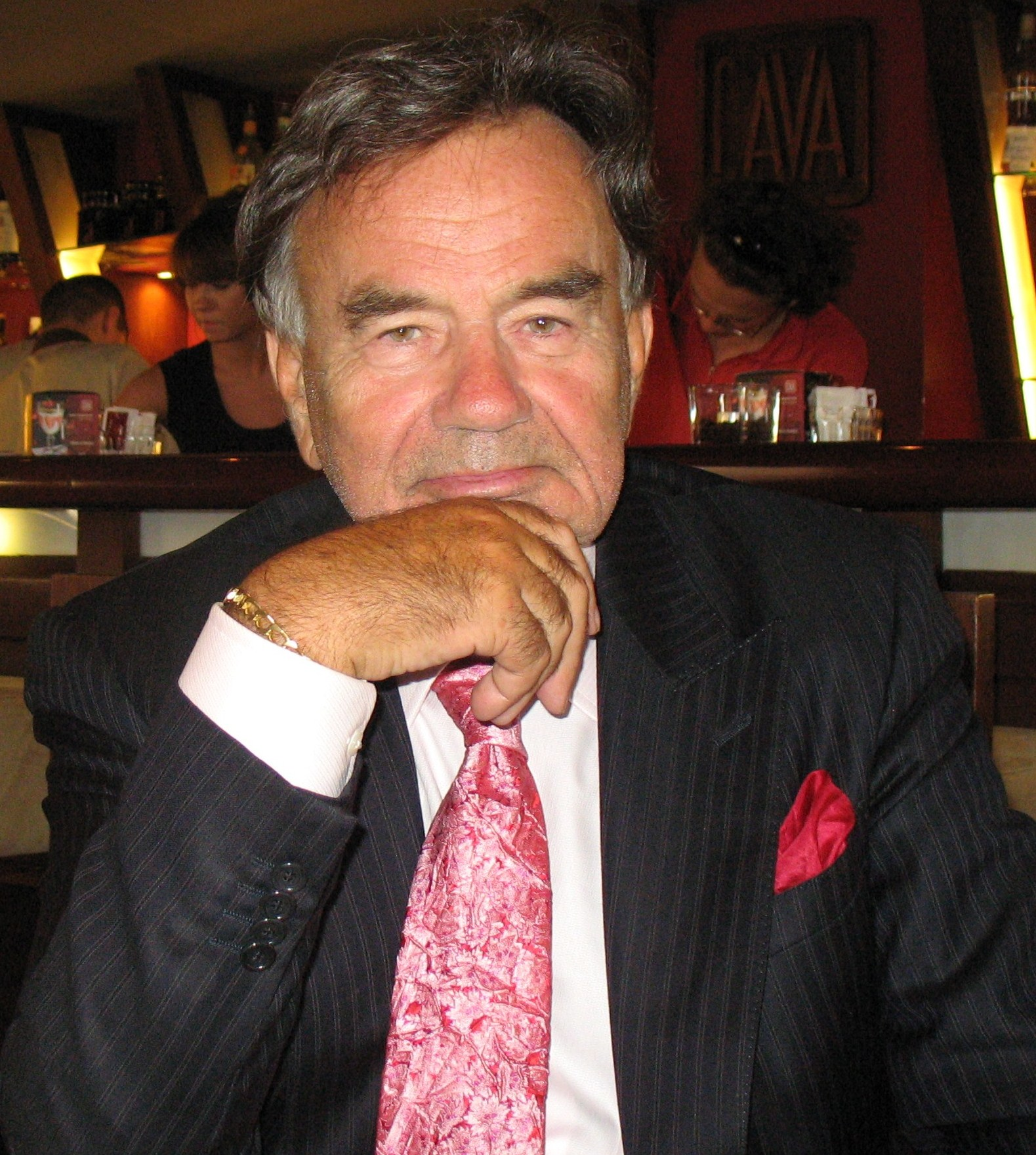 artists waldemar smolarek in studio